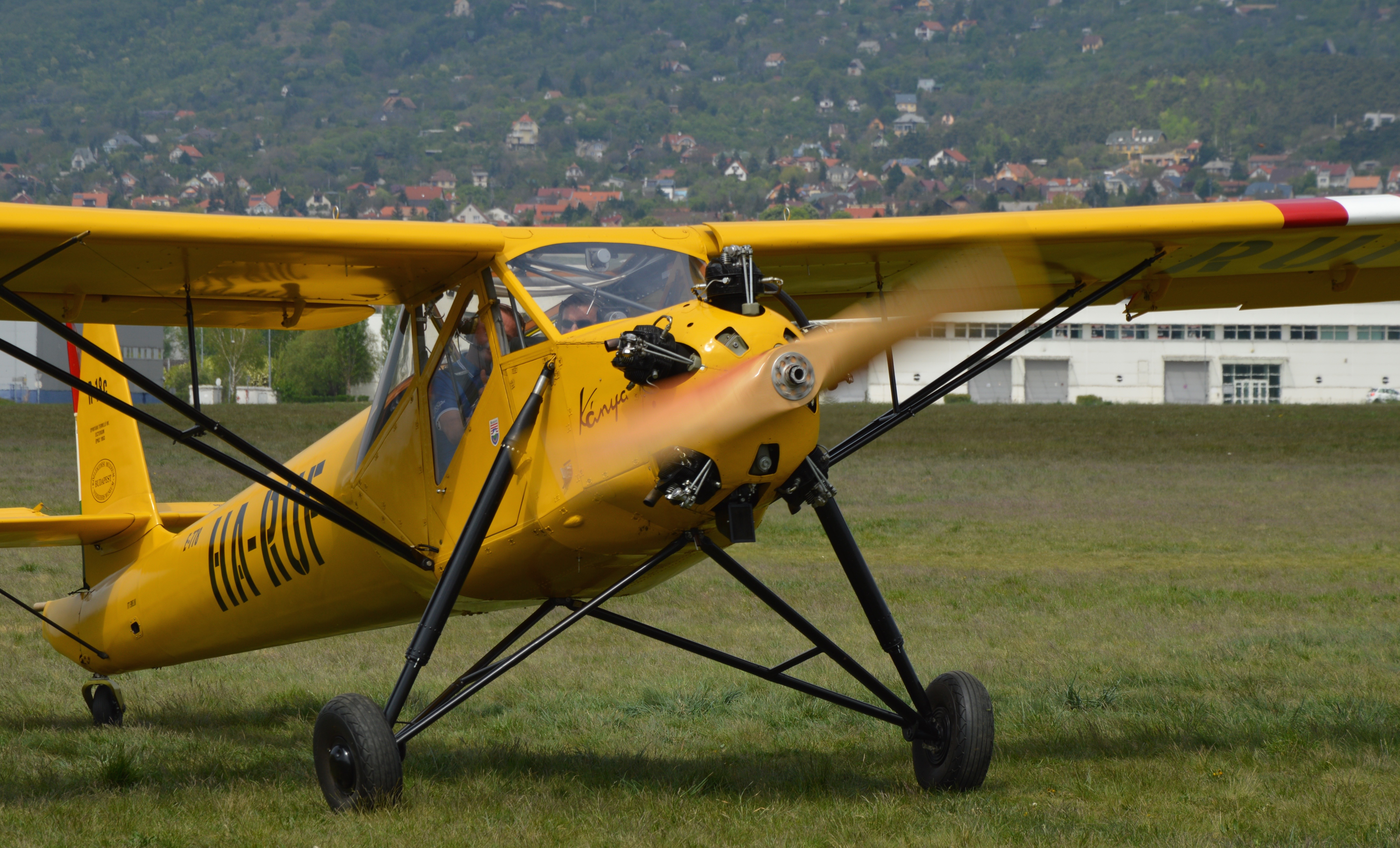 Rubik R-18c Kánya liaison aircraft and glider tug (reg. HA-RUF) in Budaörs airfield, Hungary